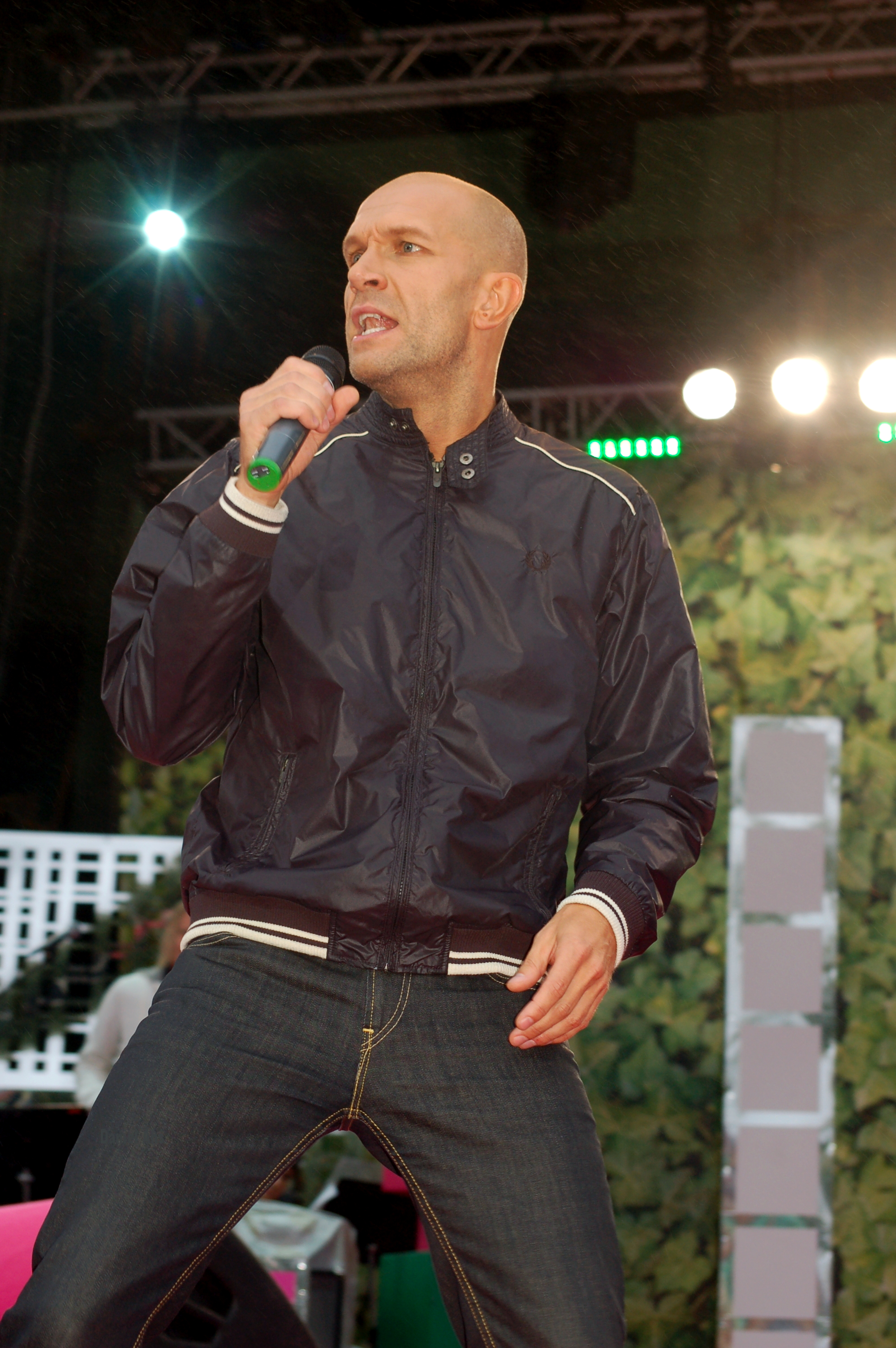 Henrik Hjelt at Gröna Lund, Stockholm.